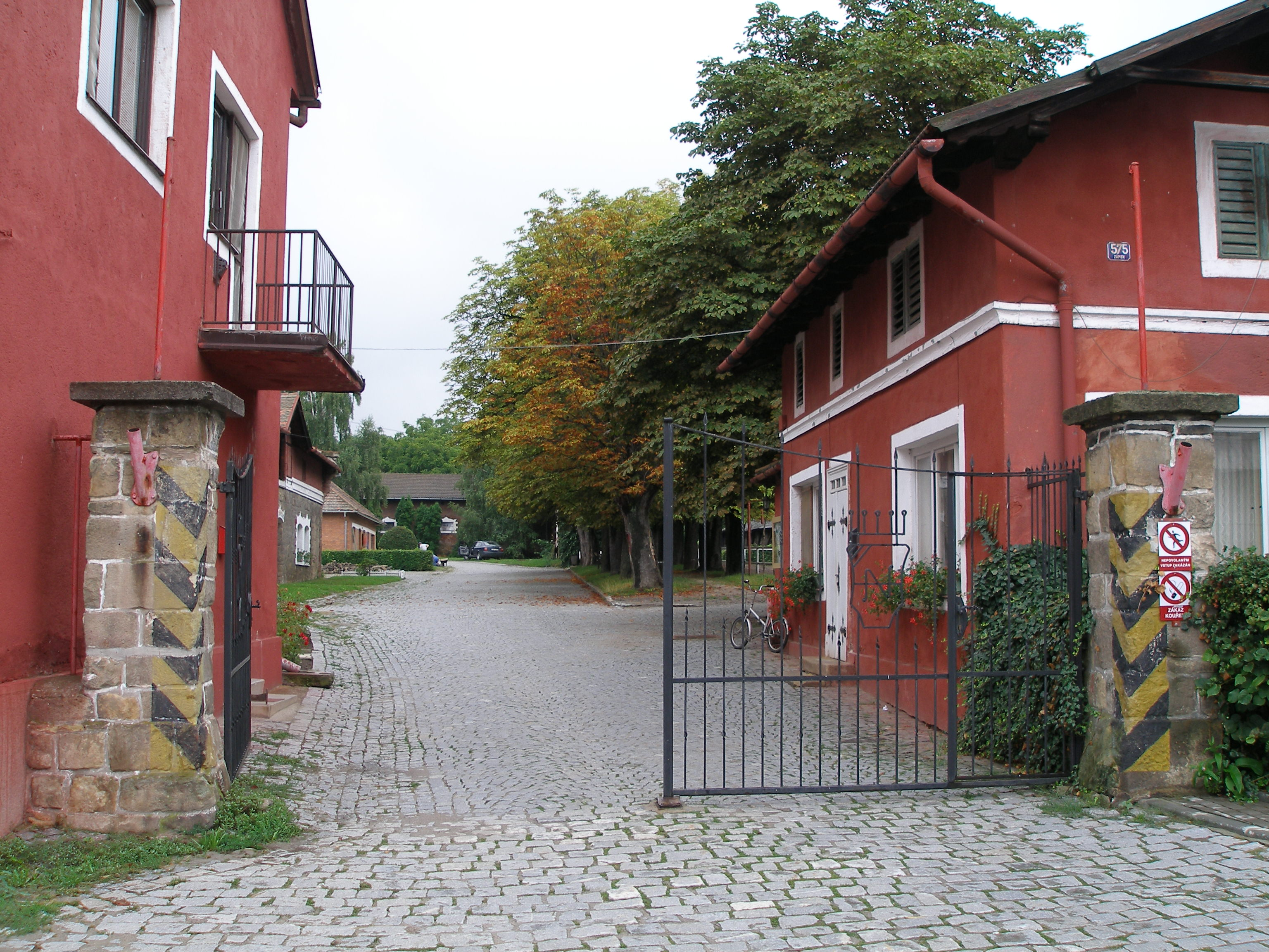 Napajedla, entry of complex houses for horses